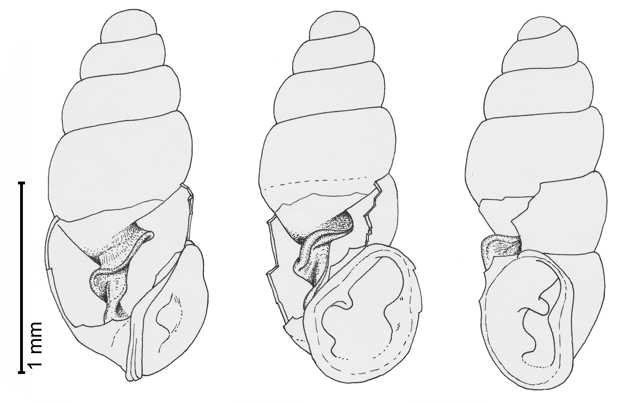 Carychium tridentatum, small pulmonate land snail species; different views of the same shell with part of the outer shell wall broken away to show the construction of the columellar plicae.